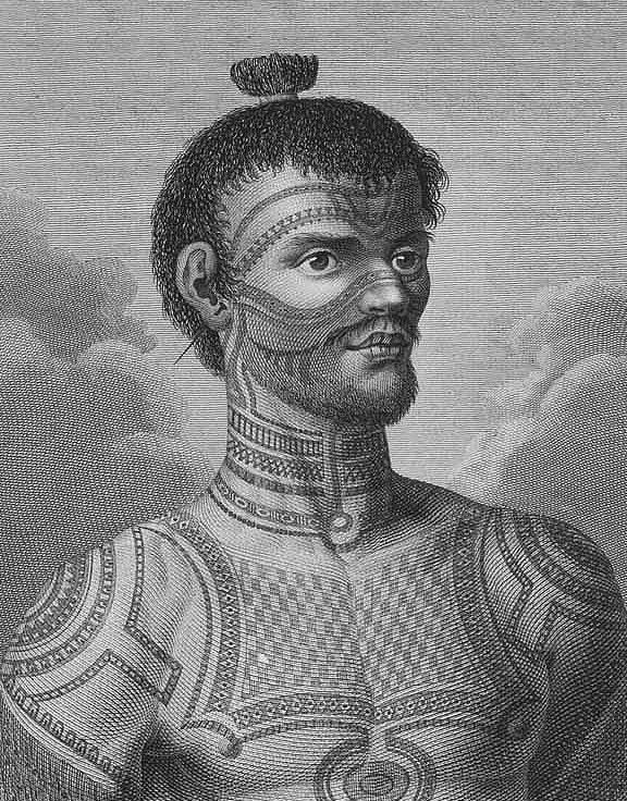 Portrait of a tattooed male from Nukuhiva (Marquesas Islands).???.